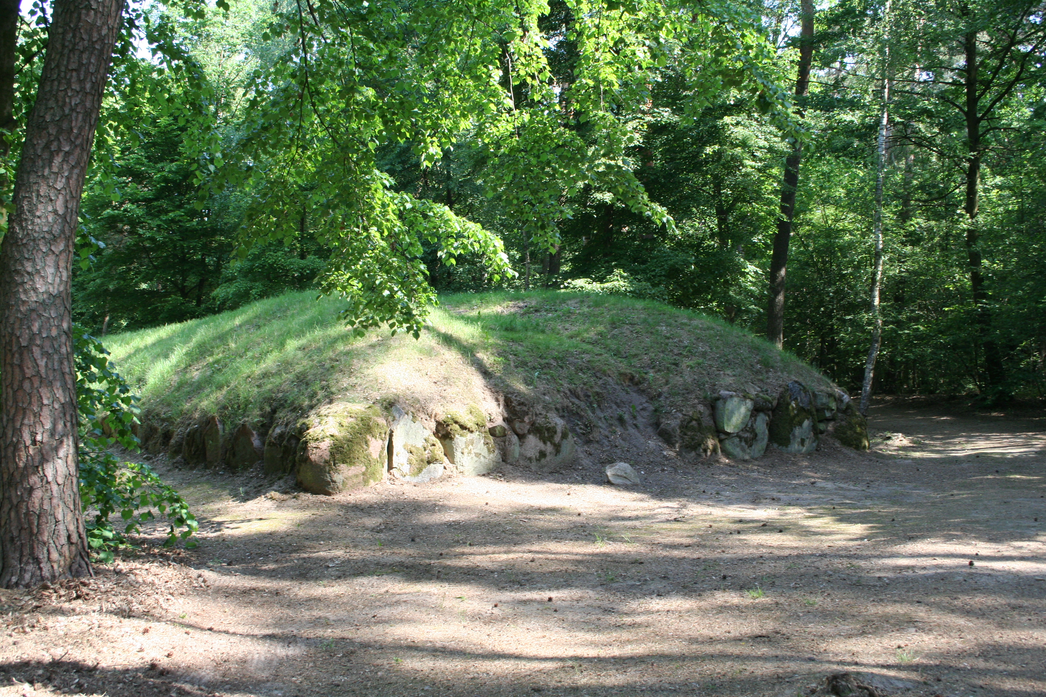 Earthen Long Barrow Wietrzychowice 2